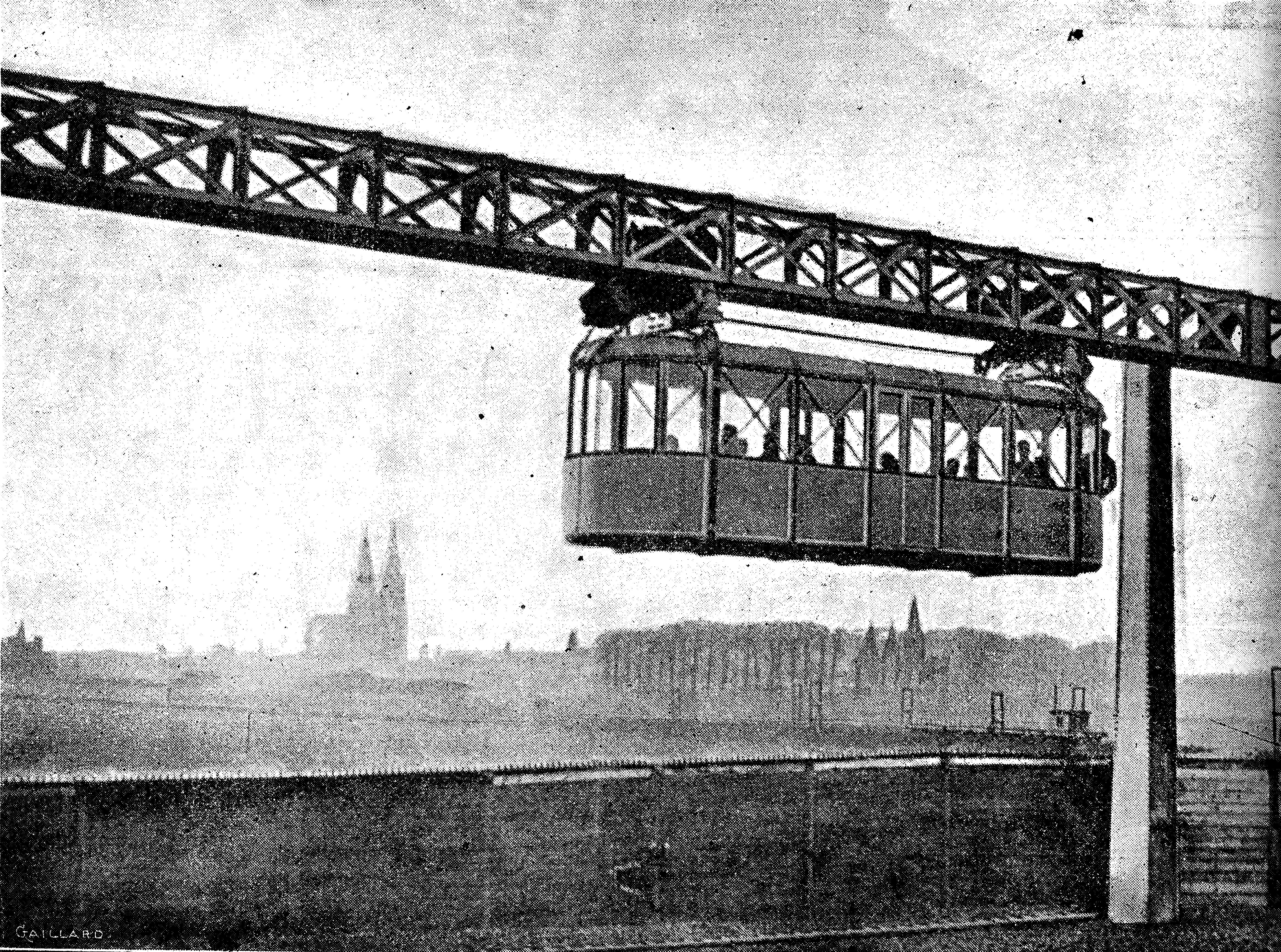 Test track of Eugen Langen's suspended Suspension railway in Cologne, built in the early 1890ies with the system later becoming known as the SAFEGE-system